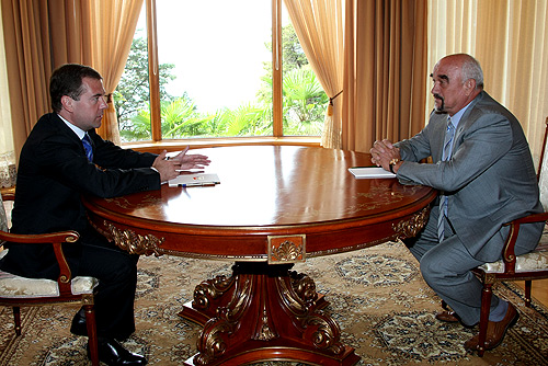 SOCHI. President of Russian Federation Dmitry Medvedev with head of Trans-Dniester Igor Smirnov.